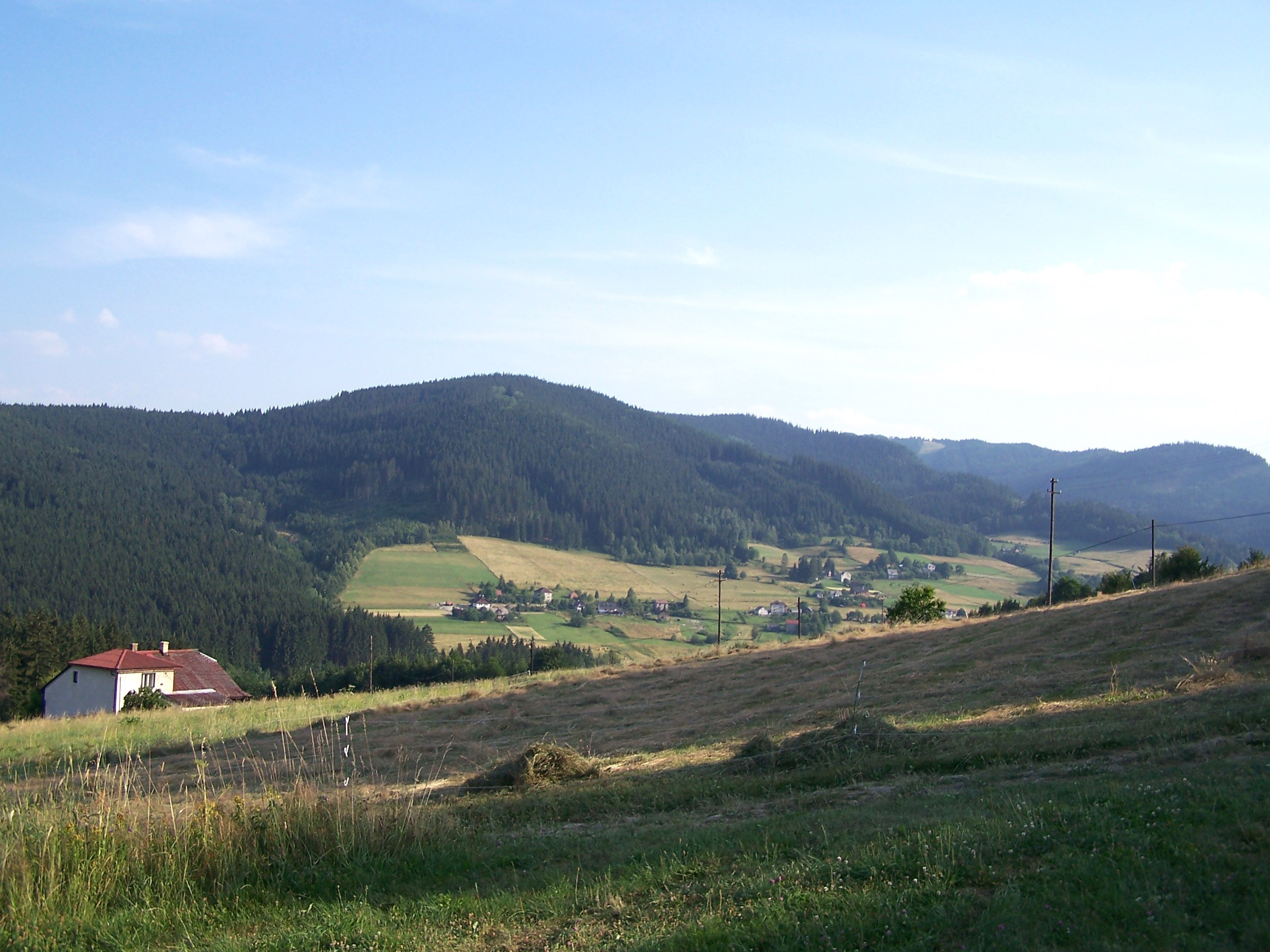 The Beskids in the Czech Republic